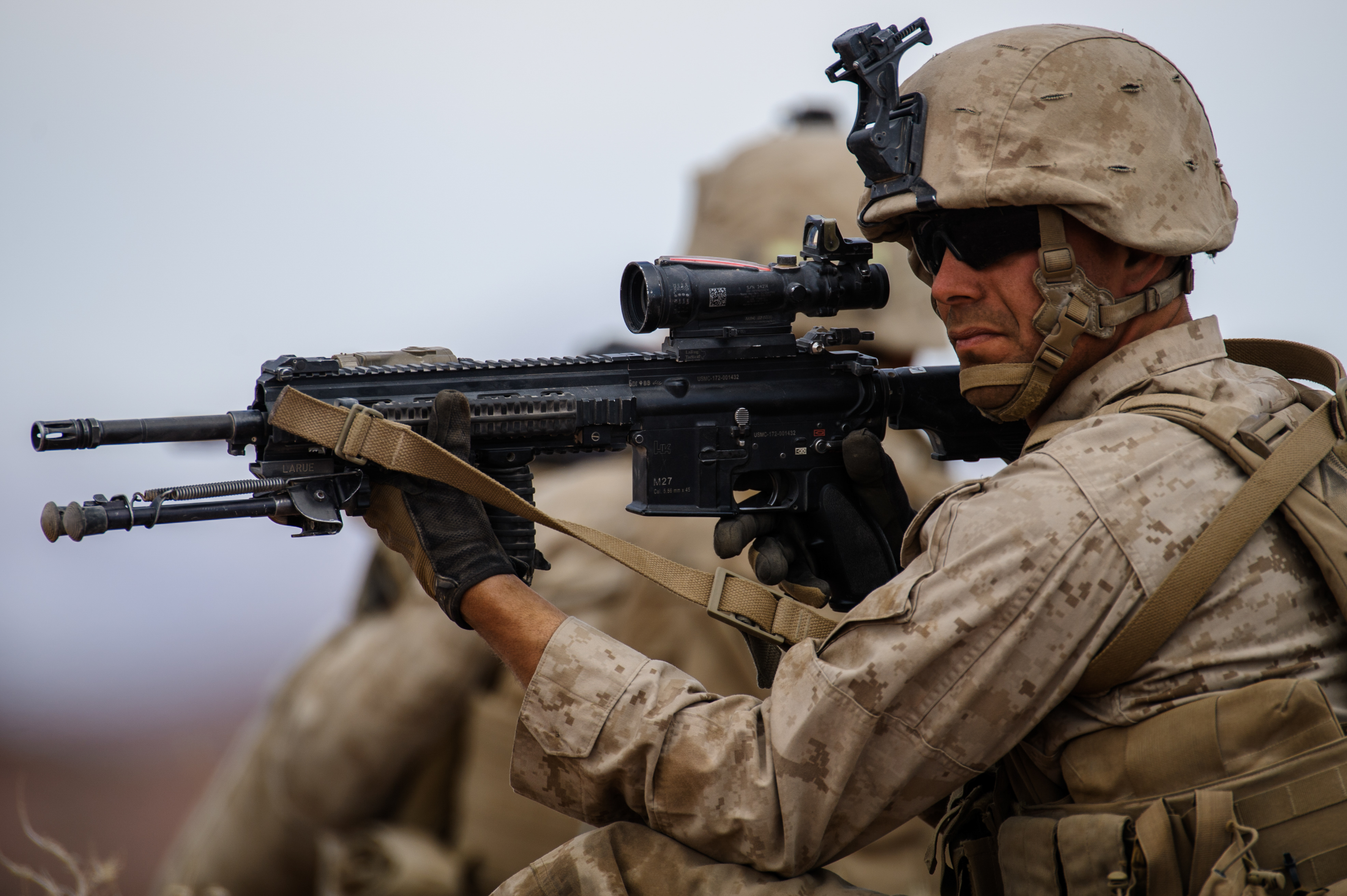 A U.S. Marine assigned to Alpha Co. 2nd Light Armored Reconnaissance Battalion, provides security during a dismounted reconnaissance mission while participating in Integrated Training Exercise 3-15, at Marine Corps Air Ground Combat Center Twentynine Palms, Calif., 20 May, 2015. MCAGCC conducts relevant live-fire combined arms training, urban operations, and joint/ coalition level integration training that promotes operational forces readiness. (U.S. Air Force photo by Senior Airman Juan A. Duenas/Released)